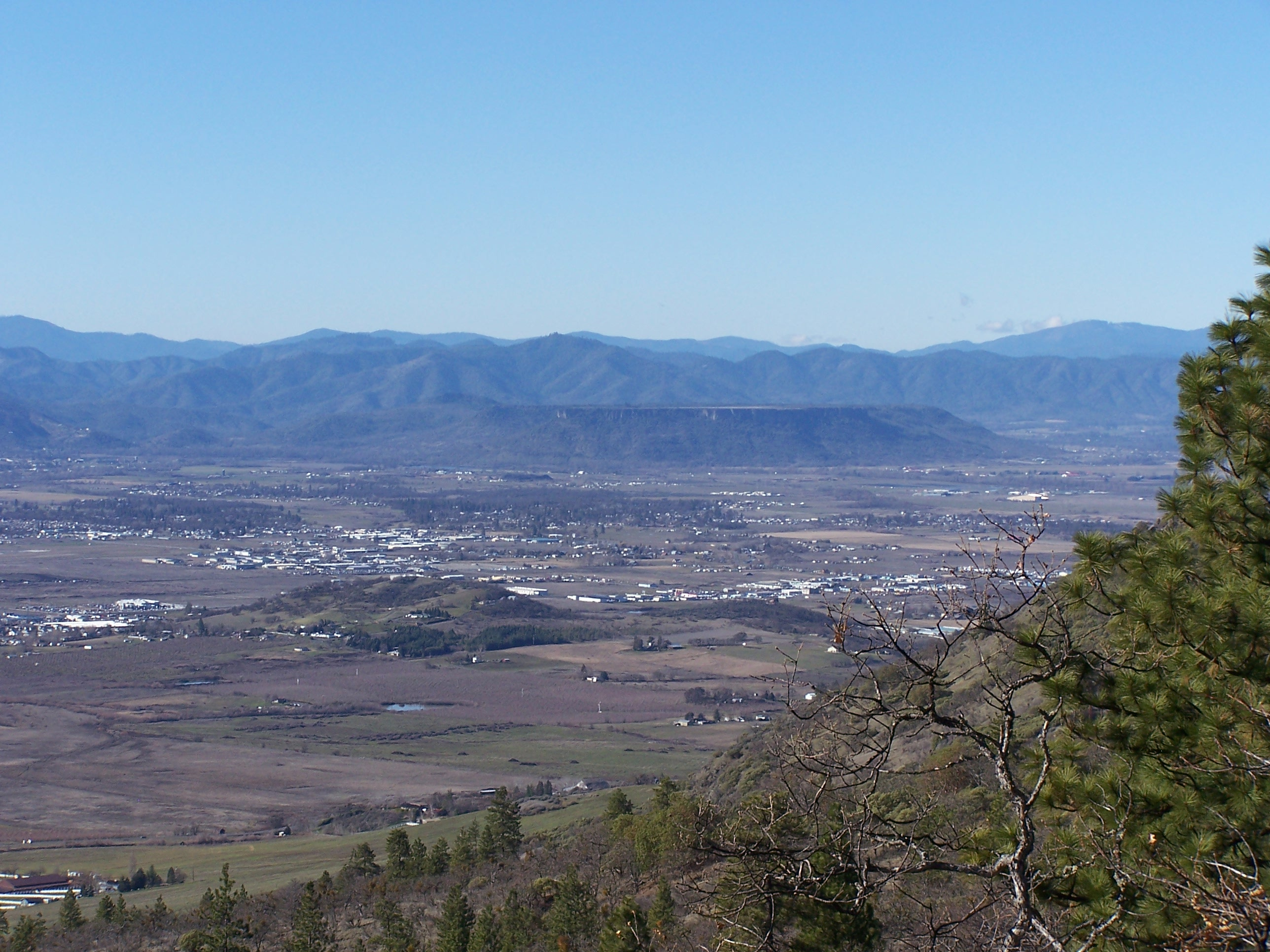 A photo of Lower Table Rock from Roxy Ann Peak.